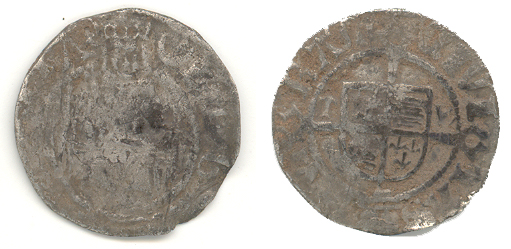 Obverse and reverse of an Henry VIII penny.